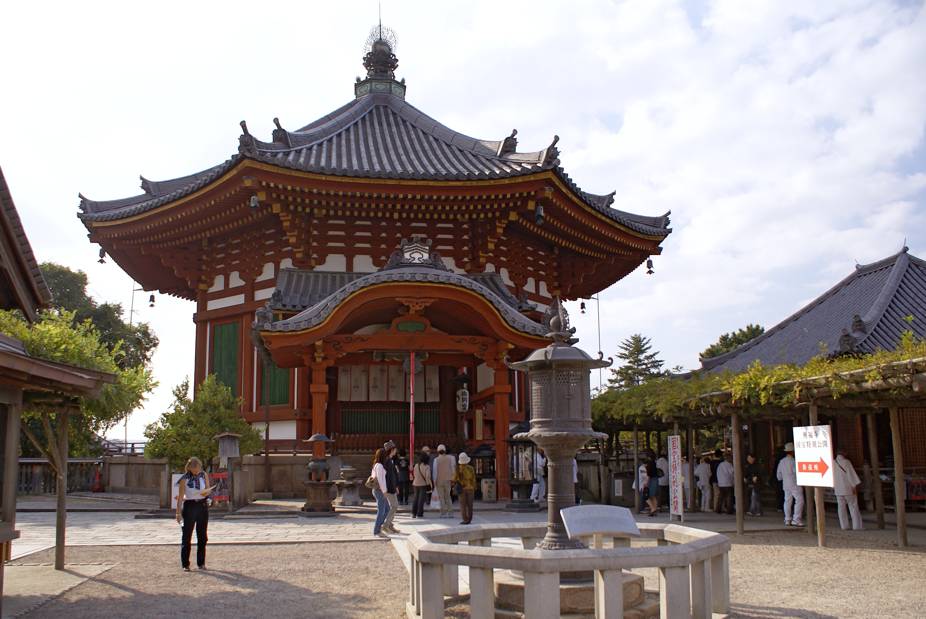 Nan'endō (South Octagonal Hall) of Kōfuku-ji in Nara, Nara prefecture, Japan